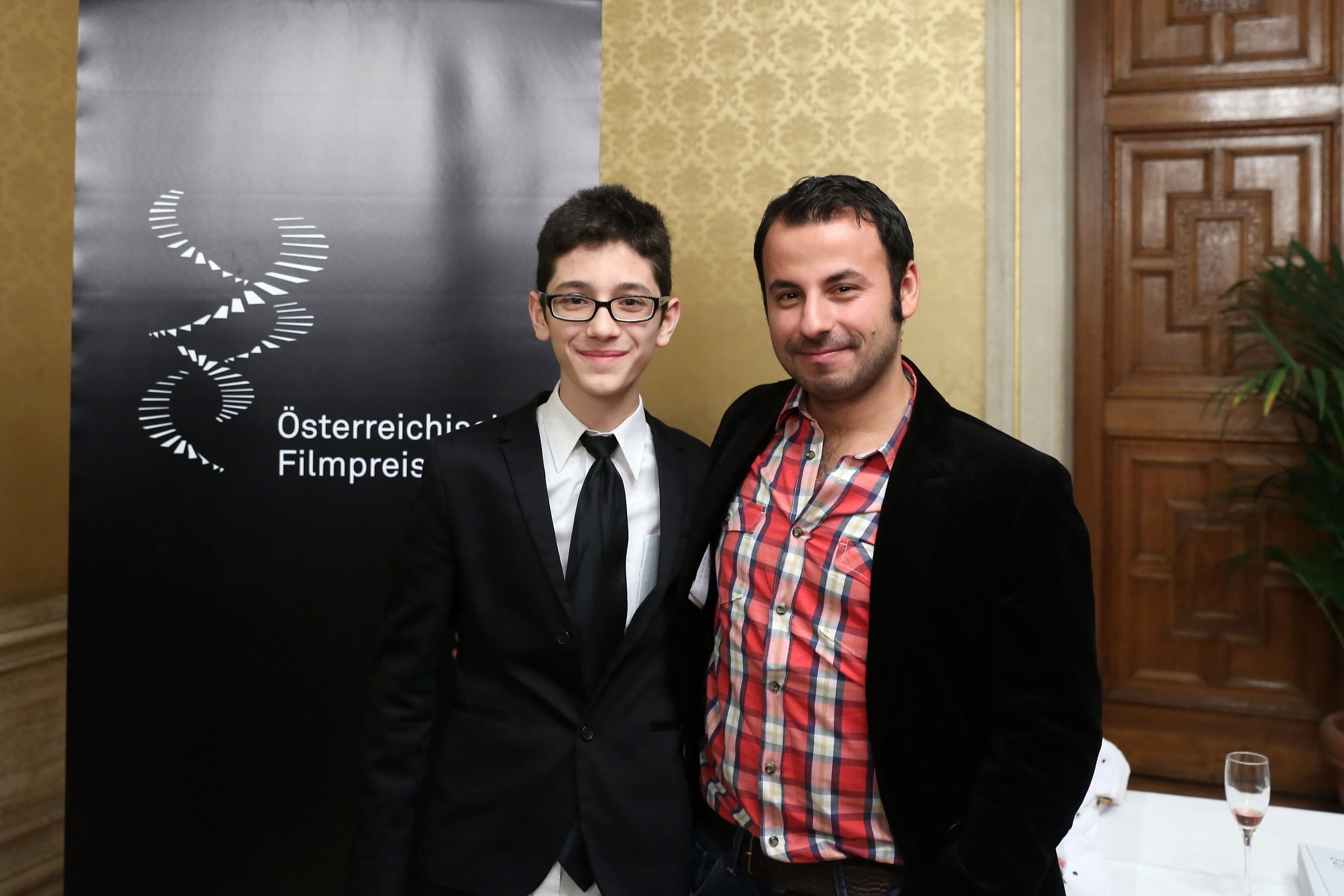 Abdulkadir Tuncer (l.) and Hüseyin Tabak. "Abend der Nominierten" ("Evening of the Nominees") at Rathaus, Vienna on the day before the Austrian Film Awards 2014 (Vienna, Austria).